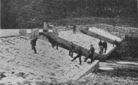 Men of Civilian Conservation Corps Company 359, Camp S71-PA, working on a dam in Black Moshannon State Park, near Phillipsburg, Centre County, Pennsylvania, USA.